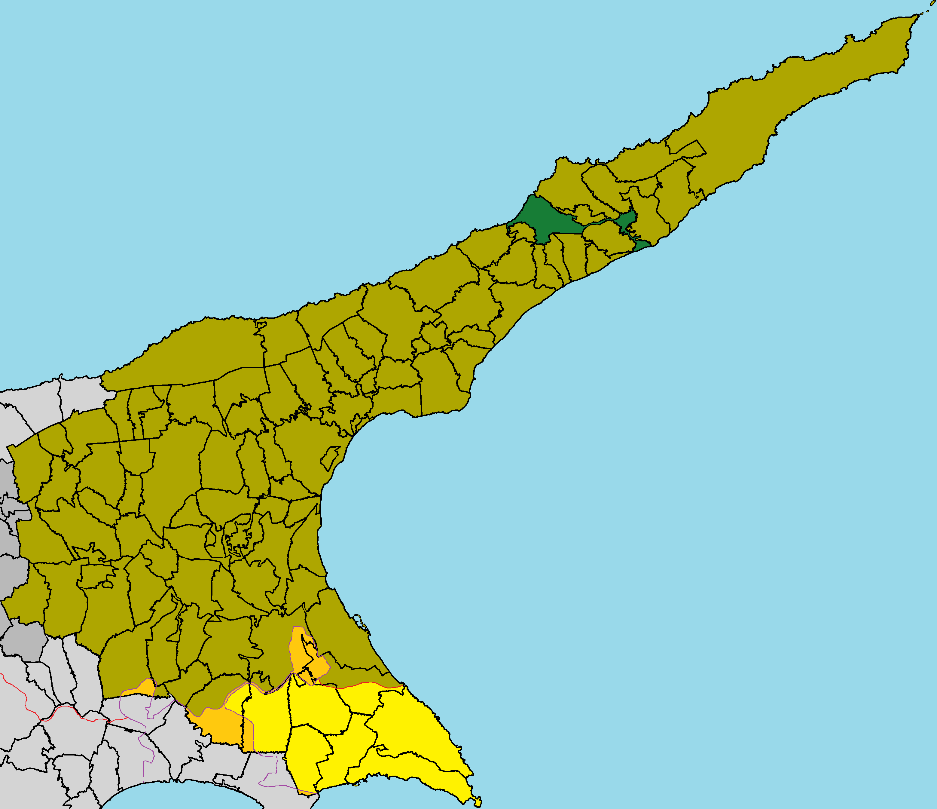 Agios Andronikos Karpasias in Famagusta District (de jure).